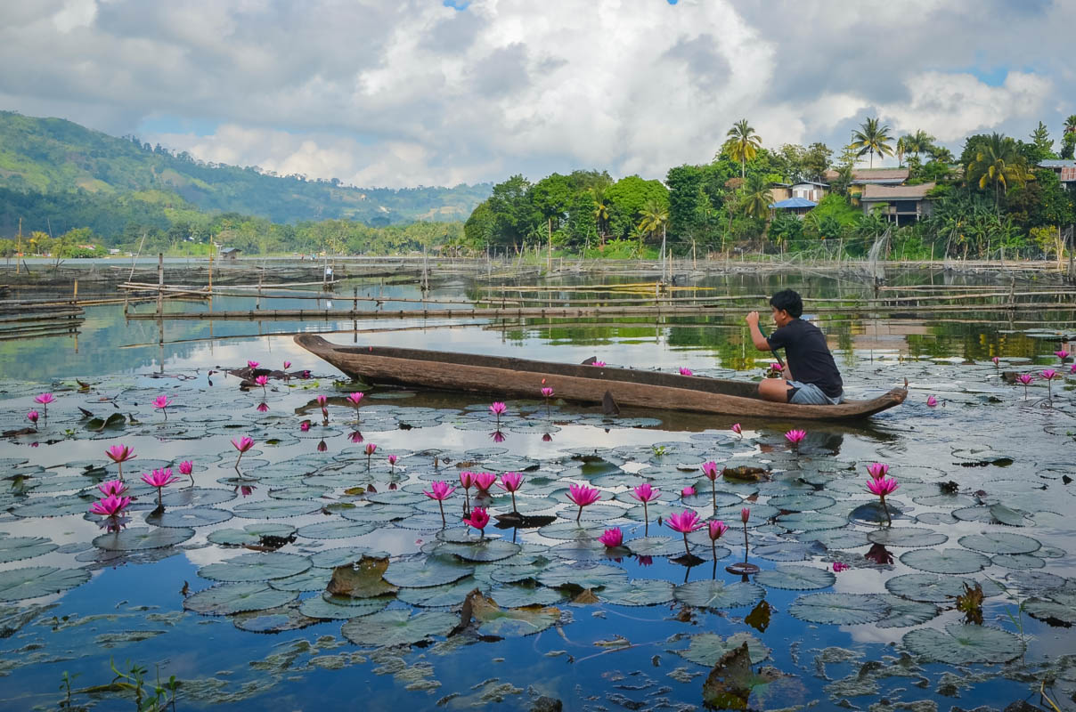 Boating at Lake Sebu Please feel free to use our photos but a link going to our website is required